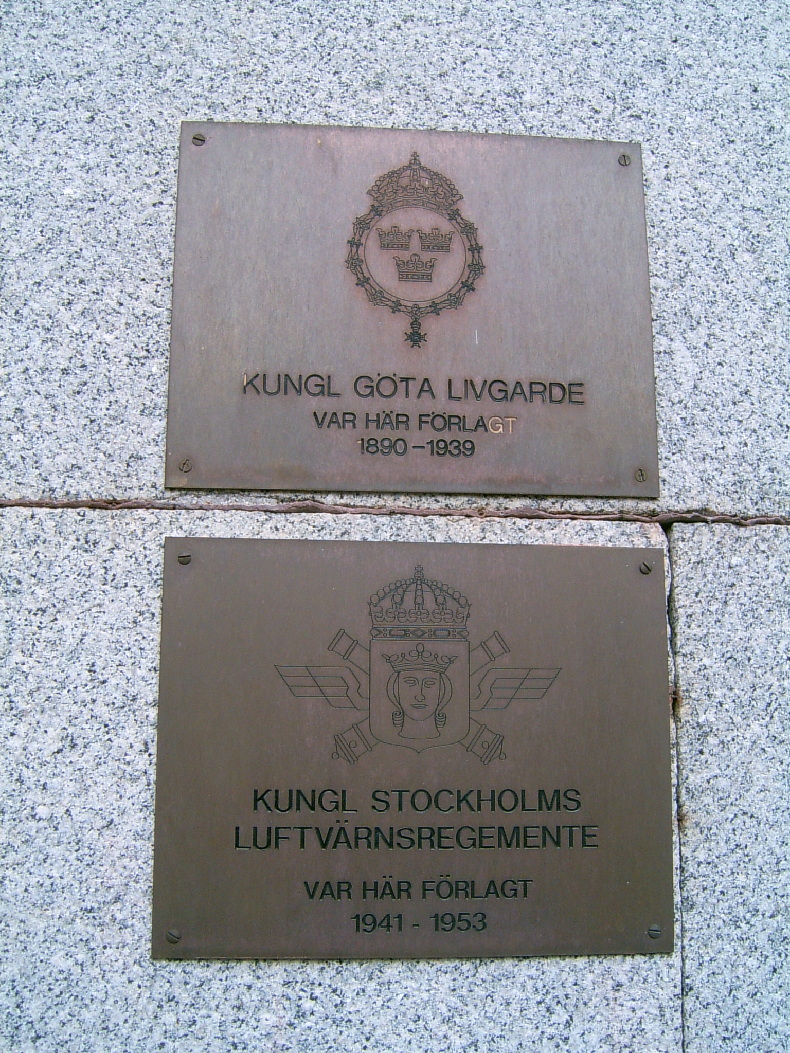 Sign at Göta livgarde and Stockholms luftvärnsregemente old barracks at Linnégatan in Stockholm. Top sign reads: "KUNGL GÖTA LIVGARDE VAR FÖRLAGT HÄR 1890-1939." Bottom sign reads: "KUNGL STOCKHOLMS LUFTVÄRNSREGEMENTE VAR FÖRLAGT HÄR 1941-1953".